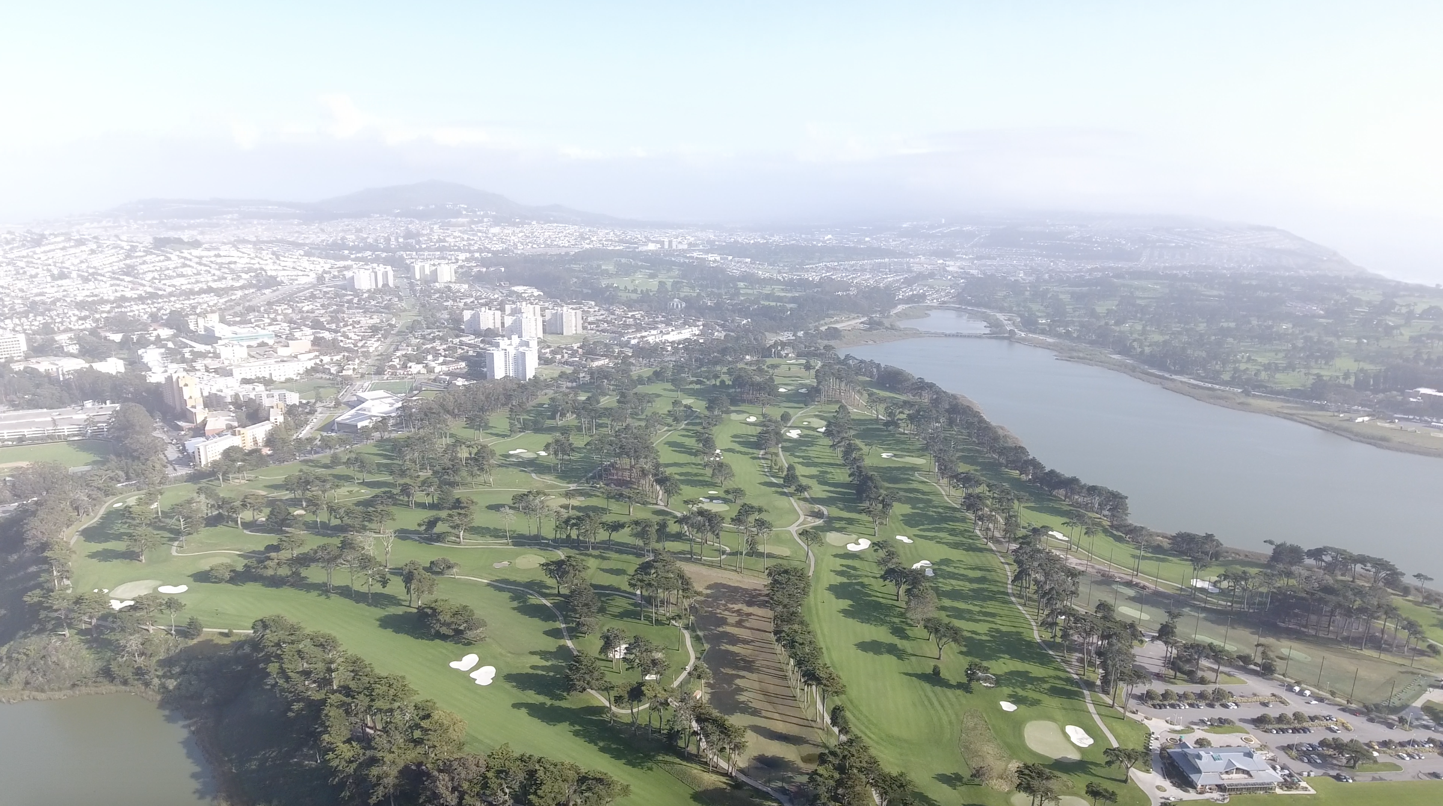 Taken with DJI Phantom 4 drone.